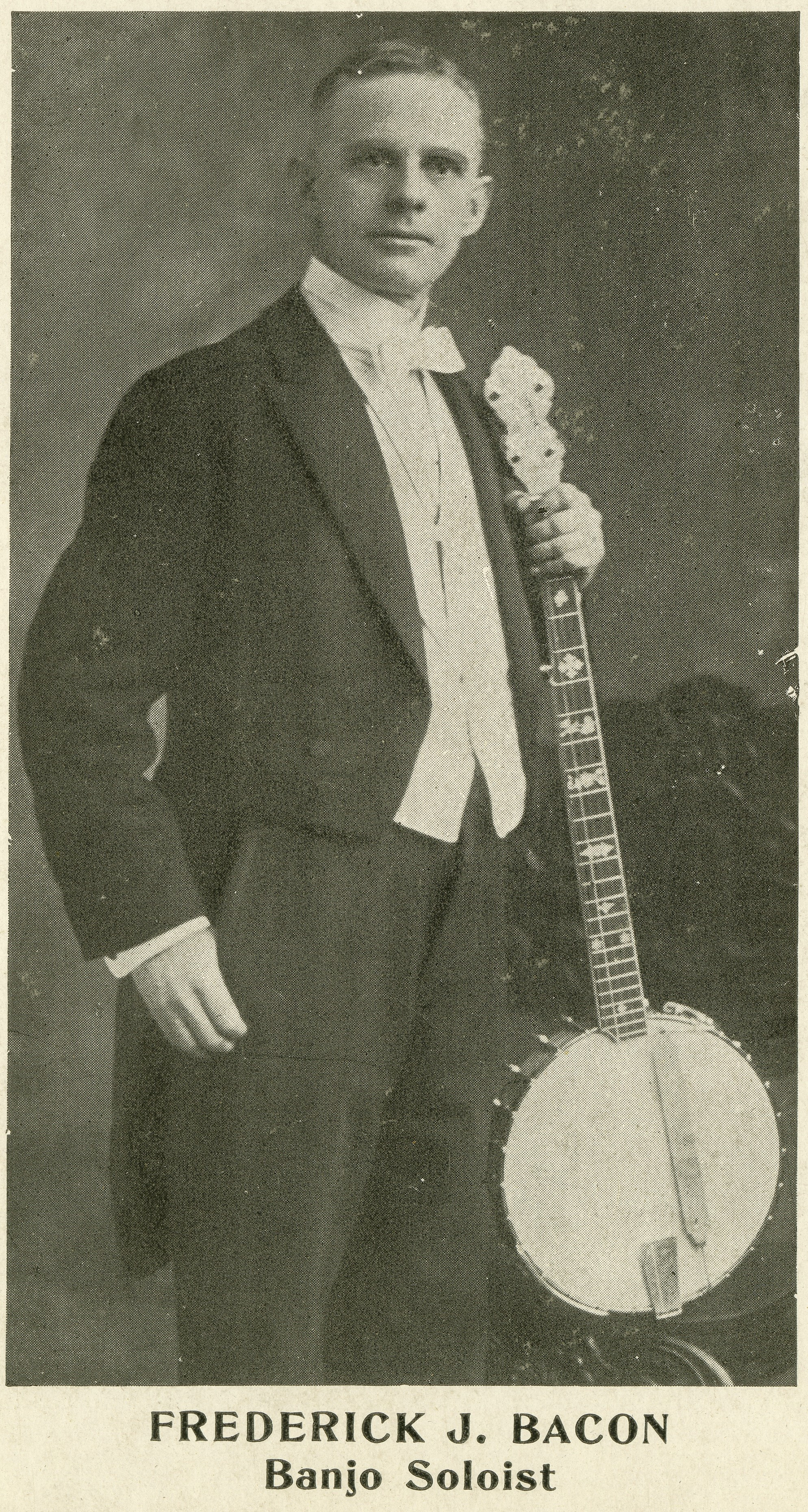 Frederick J. Bacon, banjo player. Started the Bacon Banjo Company, Inc.